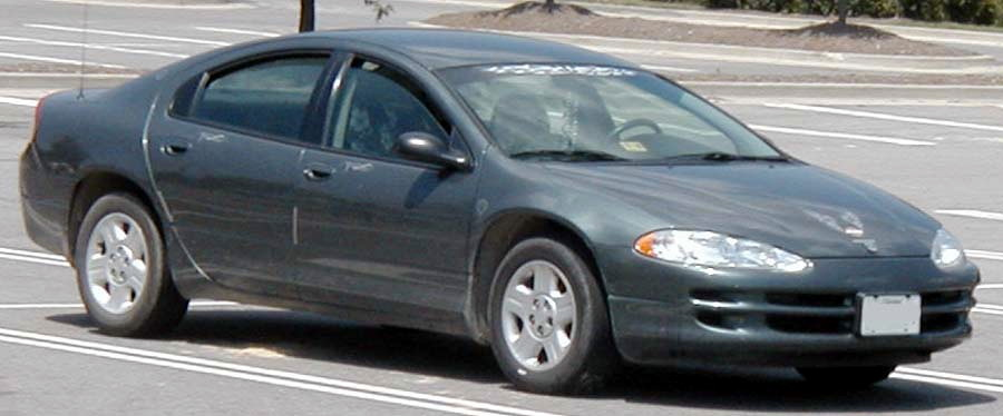 1999-2004 Dodge Intrepid photographed in USA.